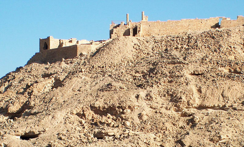 Tell Avdat (Ovdat) photo by Uri Juda